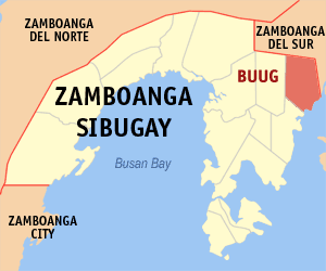 Map of the Zamboanga Sibugay showing the location of Buug